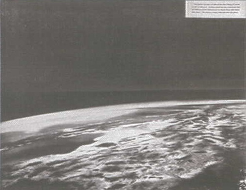 Image captured by Viking rocket #12